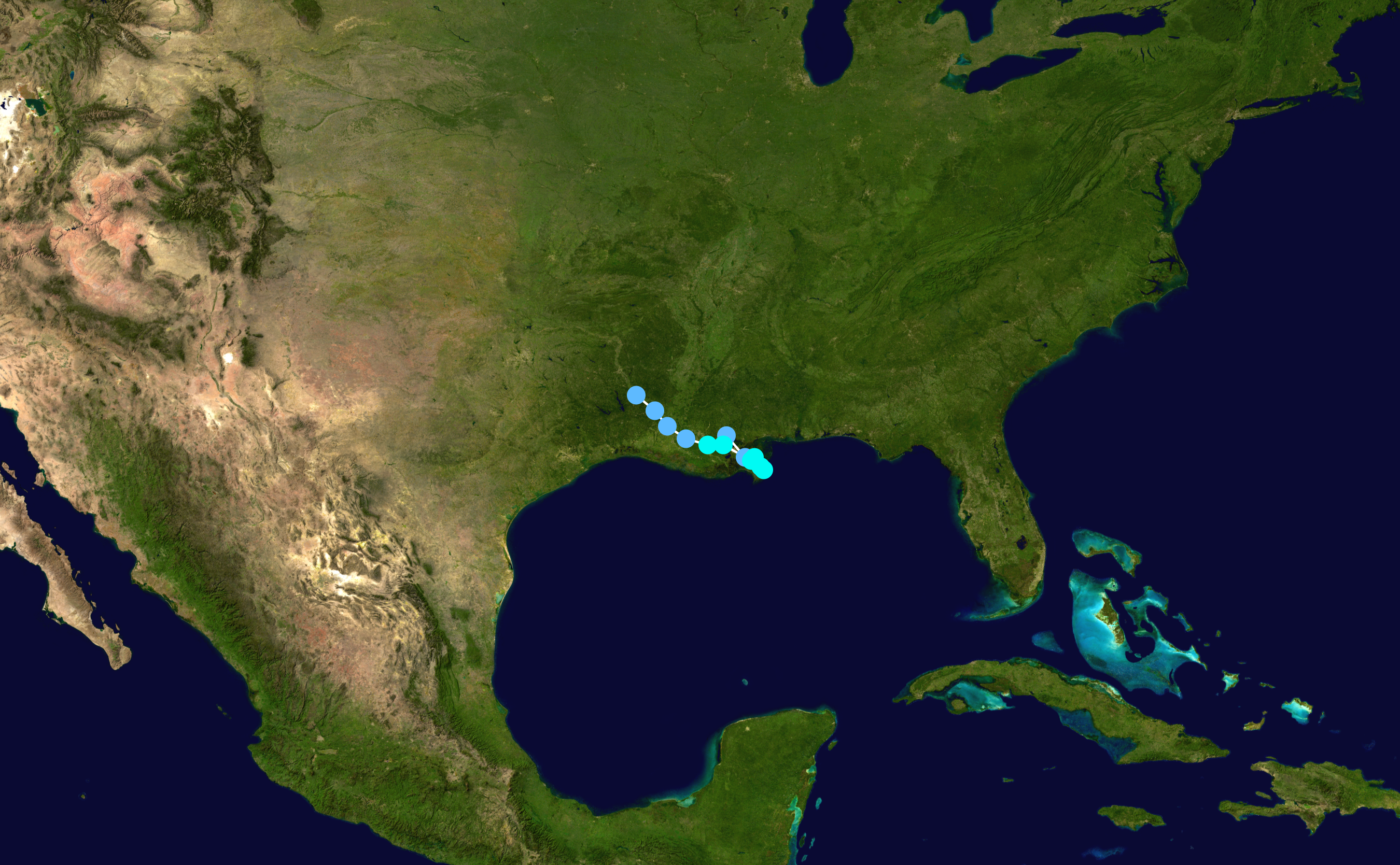 Tropical Storm Beryl (1988) track. Uses the color scheme from the Saffir-Simpson Hurricane Scale.